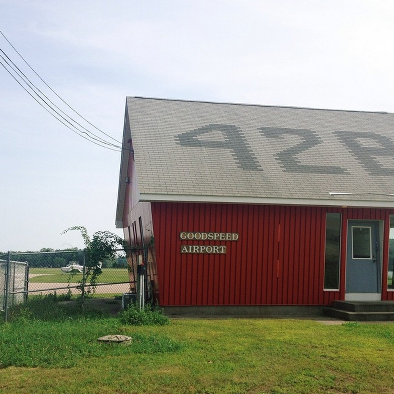 One of the buildings that comprise the Goodspeed Airport.